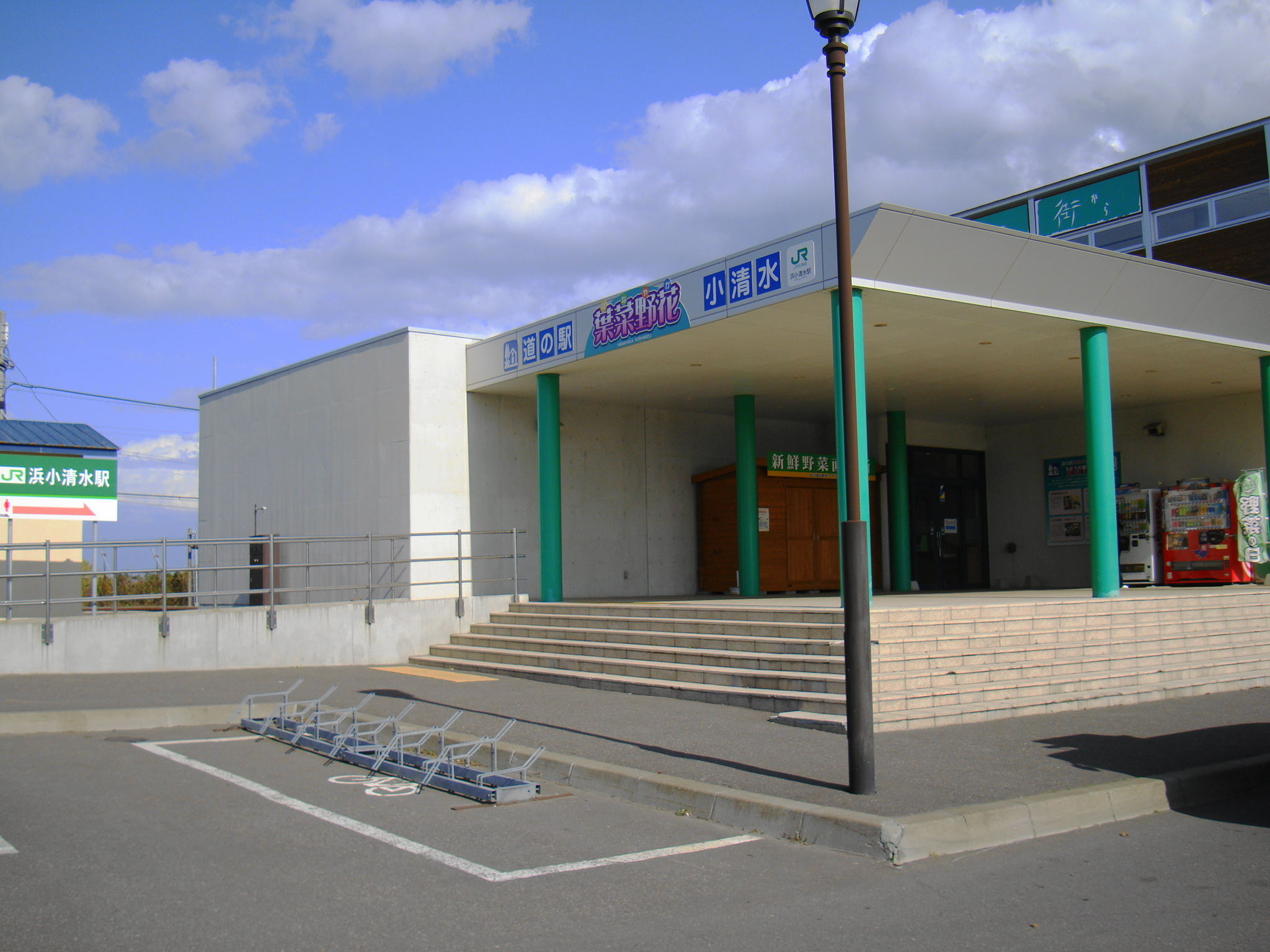 Hama-Koshimizu Station and Michinoeki Hanayaka Koshimizu